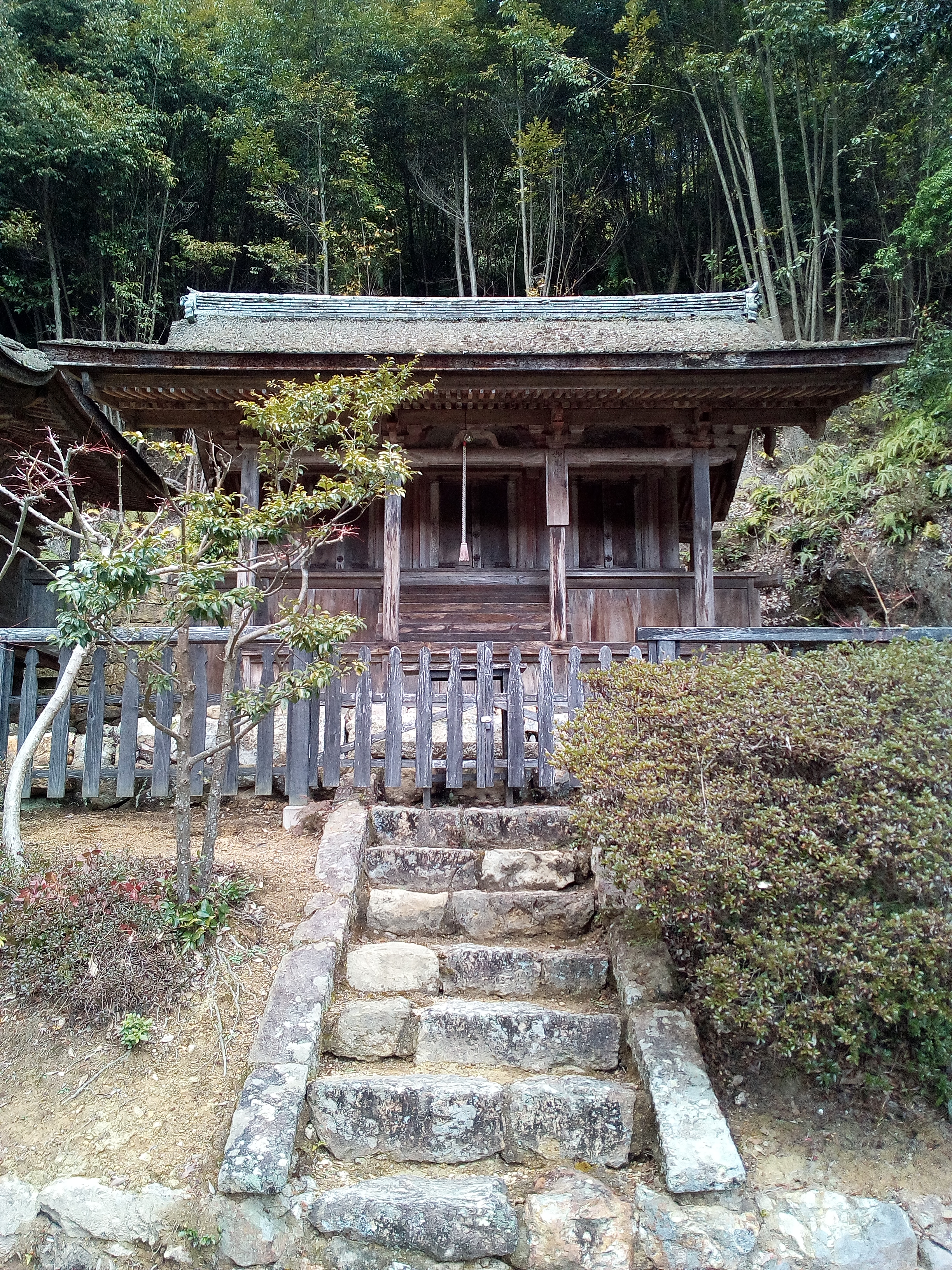 The Myokendō at Ichijō-ji, dating from 1393-1466.